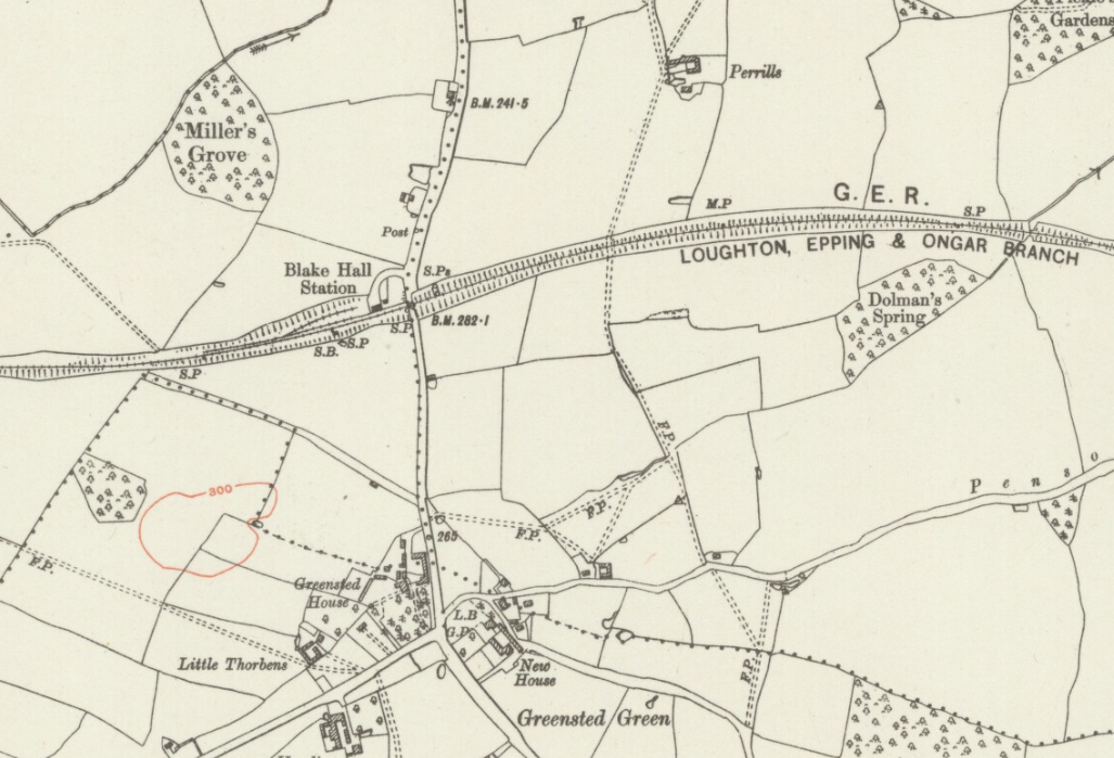 Ordnance Survey Map of Blake Hall station, Essex.